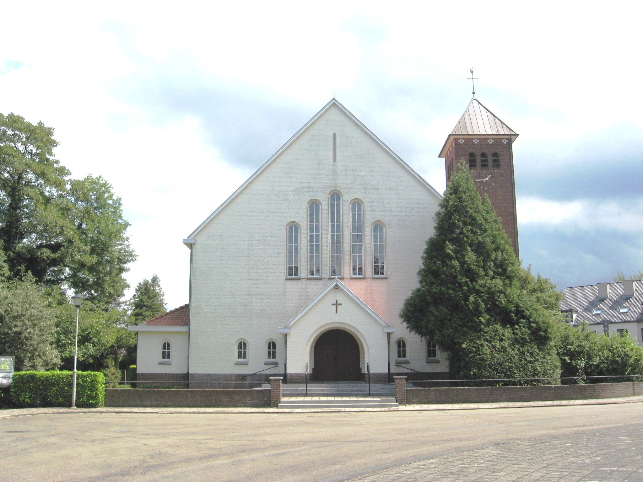 Church of the Immaculate Conception of Saint Mary in Alken (Terkoest), Limburg, Belgium